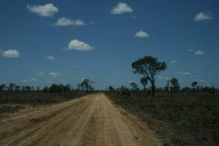 Lakefield National Park, Cape York, Queensland, Australia